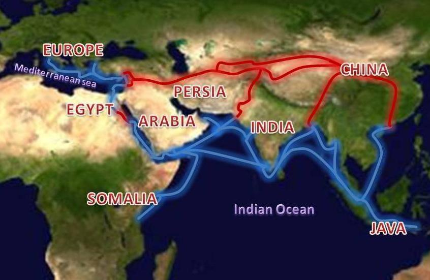 Silk RoadOriginal text from original uploader: "Extent of Silk Route/Silk Road. Red is land route and the blue is the sea/water route."